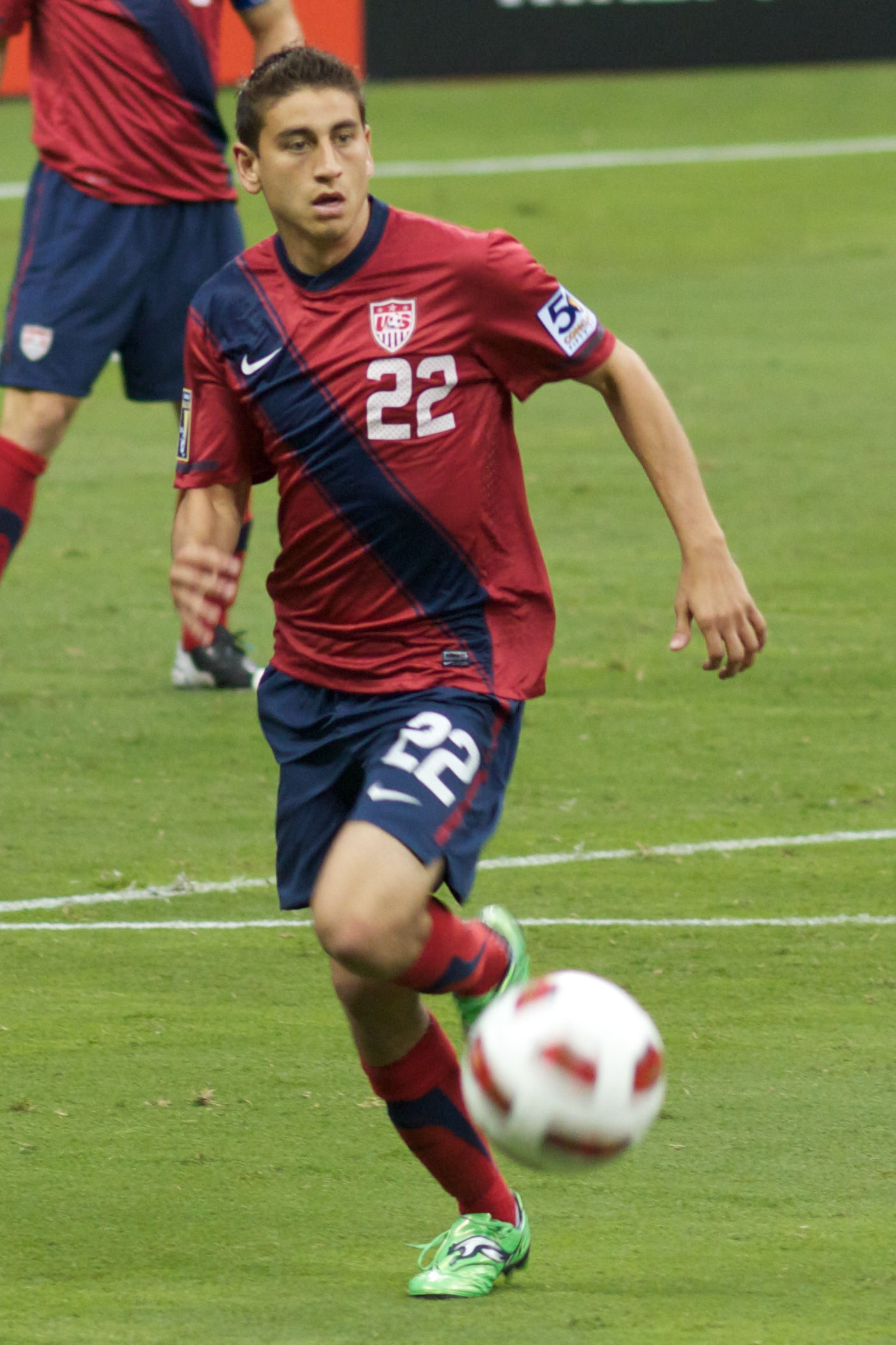 Alejandro Bedoya representing the US soccer team at the 2011 Gold Cup semi-final match in Houston Texas on June 22, 2011.